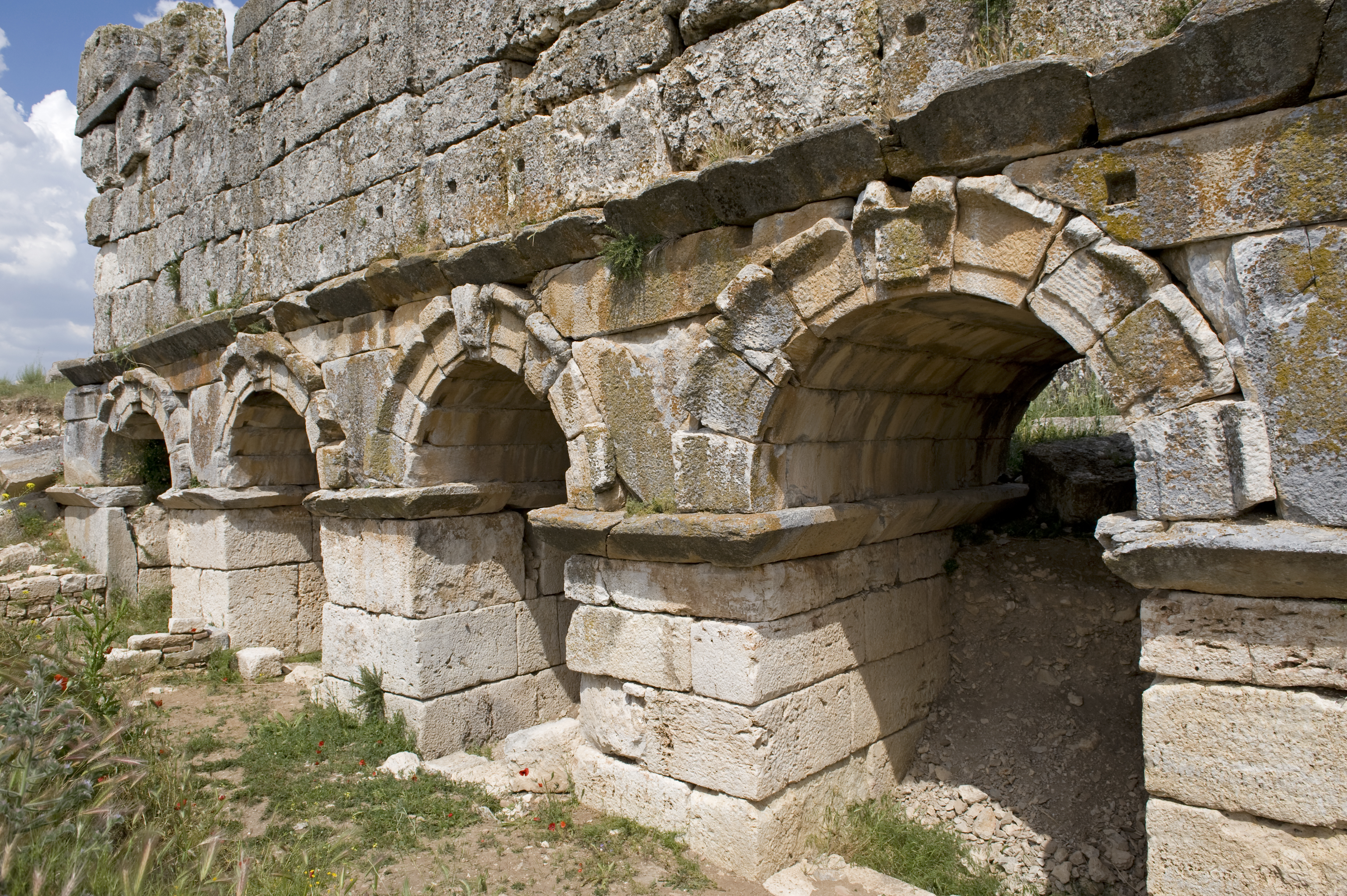 At the south end of the stadium: various honorific inscriptions (in Greek, one mentioning M. Apuleius Eurykles) and stylised laurel wreaths celebrating the winners of sports games held in the stadium. Roman era, 2nd or 3th century AD.